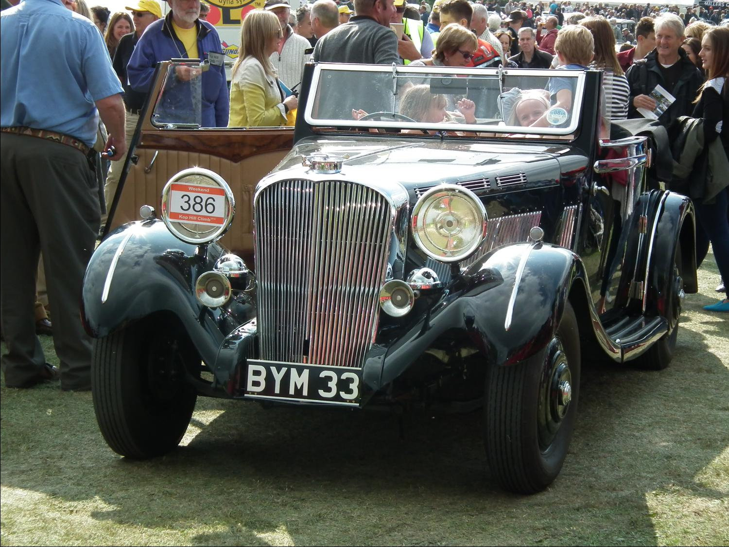 1935 Brough Superior8 Cylinder 4168cc drop head coupéKop Hill 2014